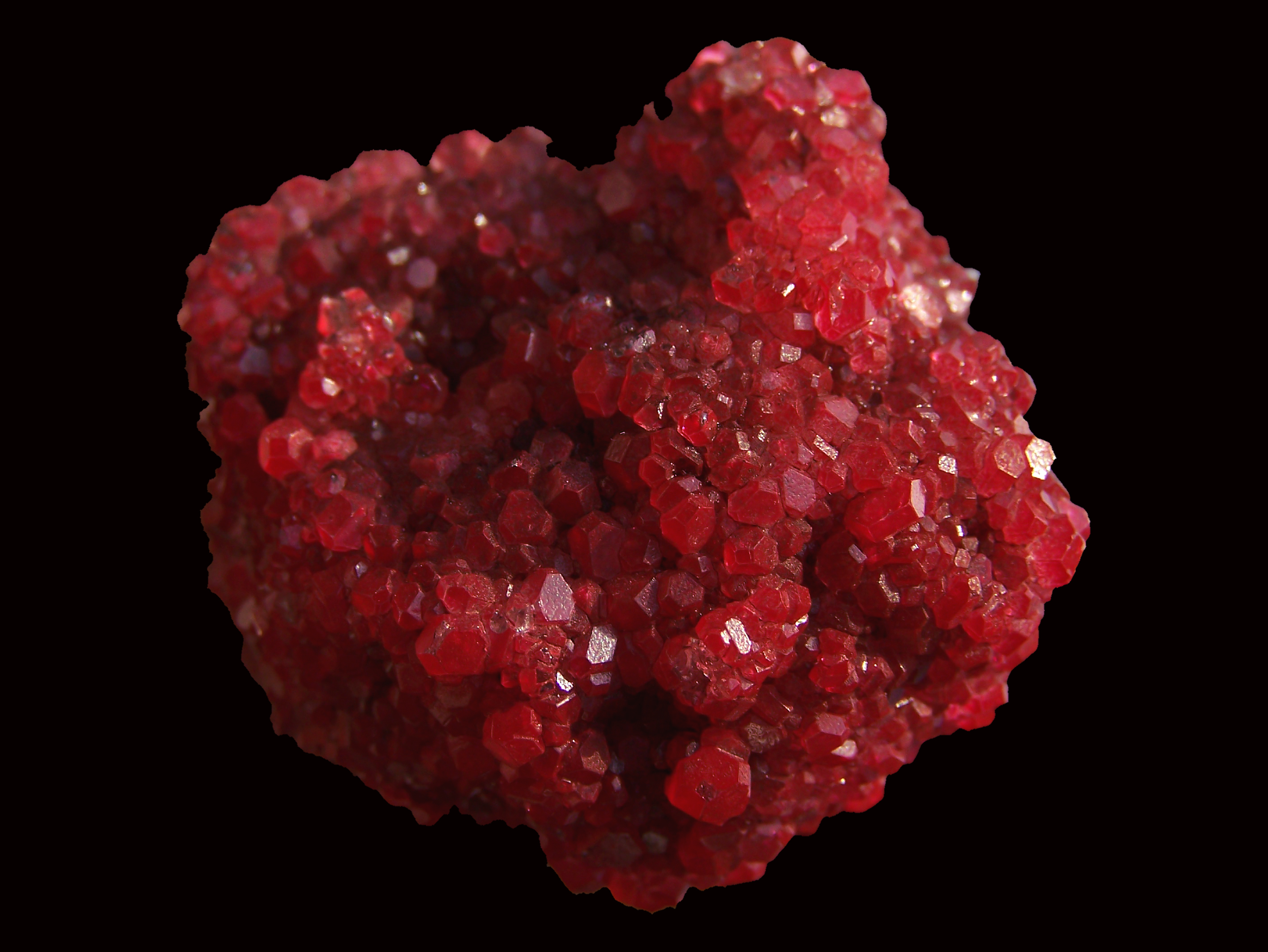 Alunite Mineral Data Empirical Formula: KAl3 (SO4)2 (OH) 6 Color is reddish. Luster is vitreous to pearly. Crystals are transparent to translucent. Potassium 9.44 % K 11.37 % K2O Aluminum 19.54 % Al 36.92 % Al2O3 Hydrogen 1.46 % H 13.05 % H2O Sulfur 15.48 % S 38.66 % SO3 Oxygen 54.08 % O Molecular Weight = 414.21 gm